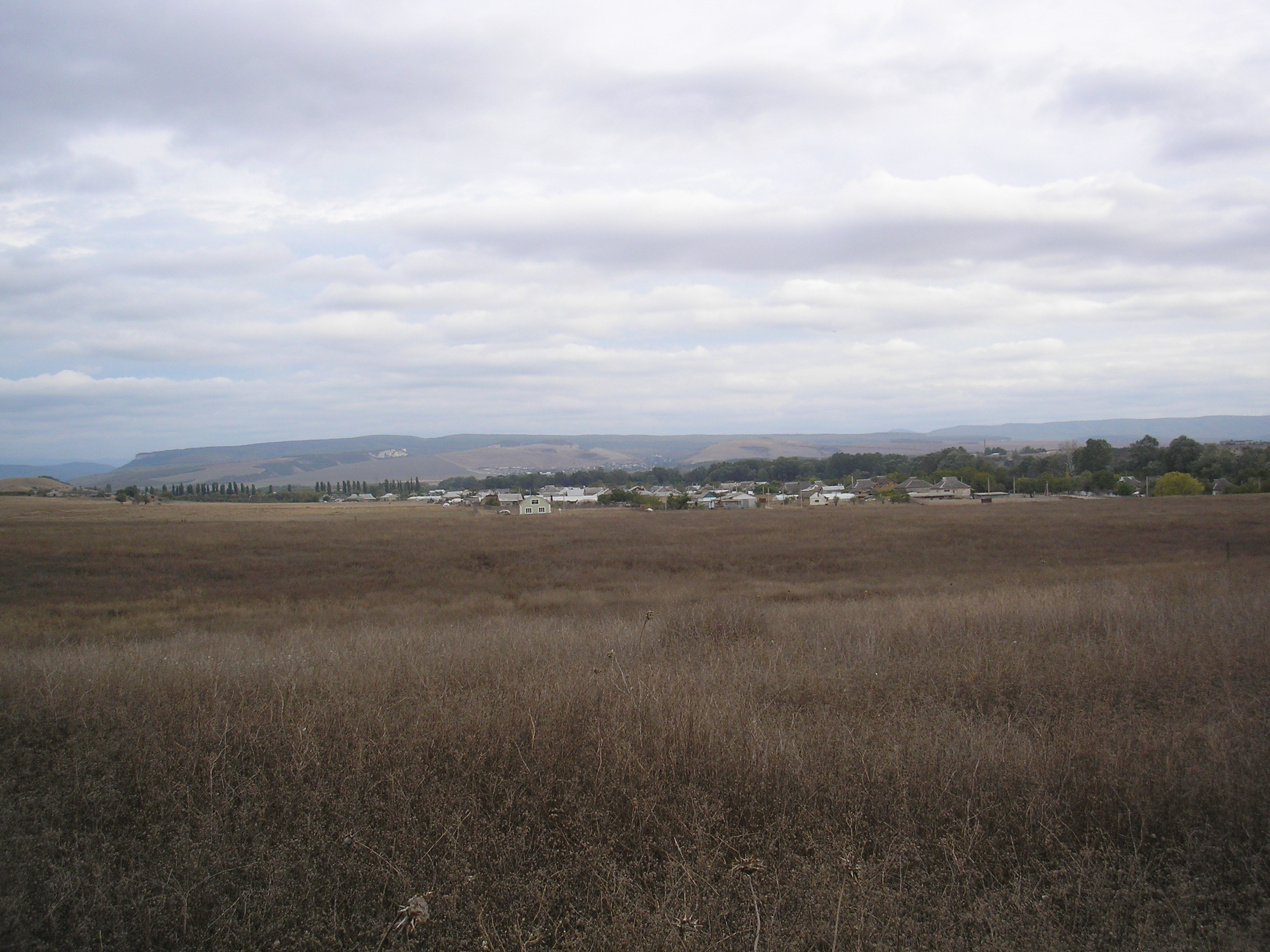 Village Novenkoe, Bakhchisaray district, Crimea